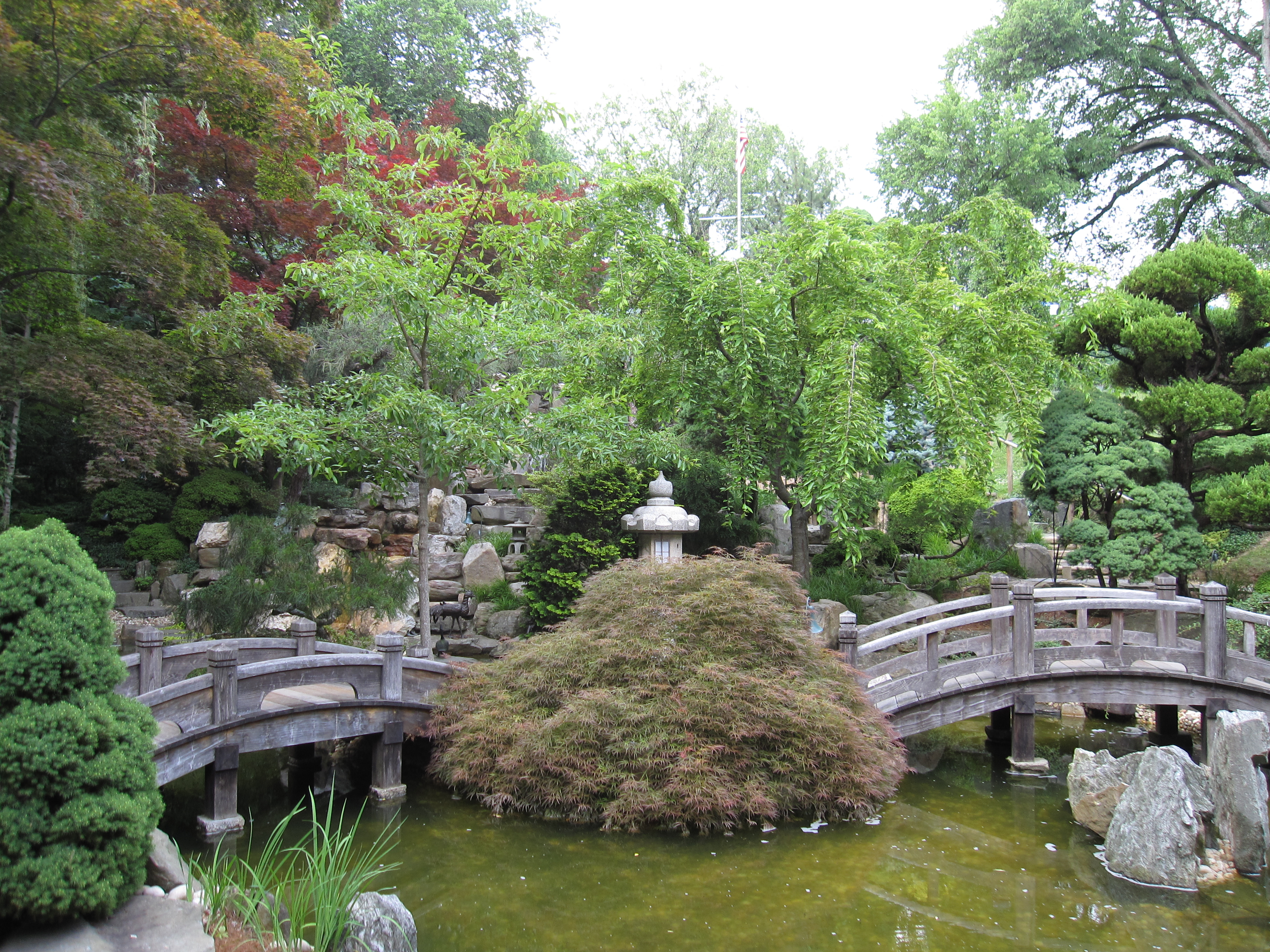 Hillwood Estate, Museum & Gardens in Washington, D.C.